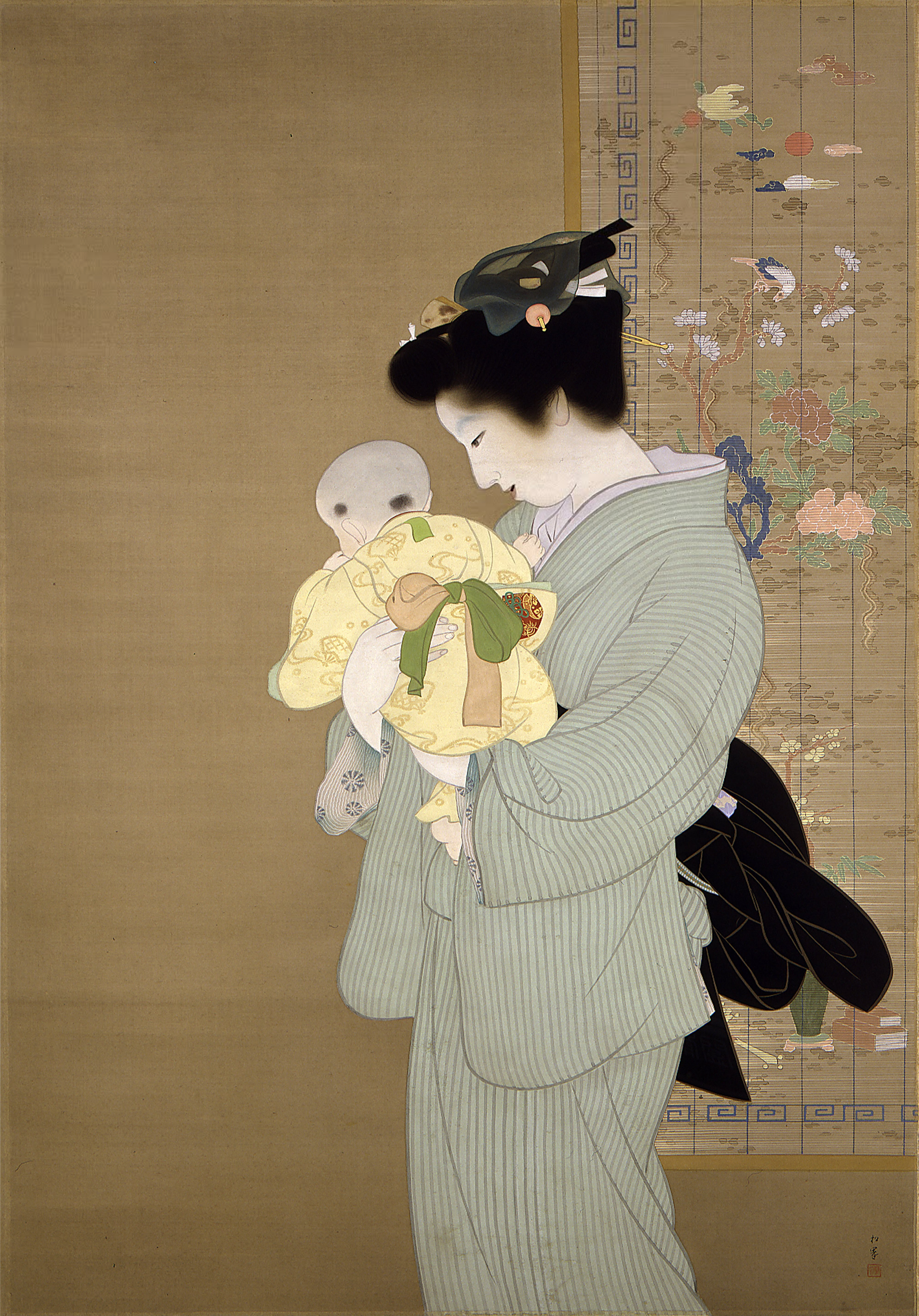 Mother and Child, colour on silk, by Uemura Shoen, National Museum of Modern Art, Tokyo, Japan